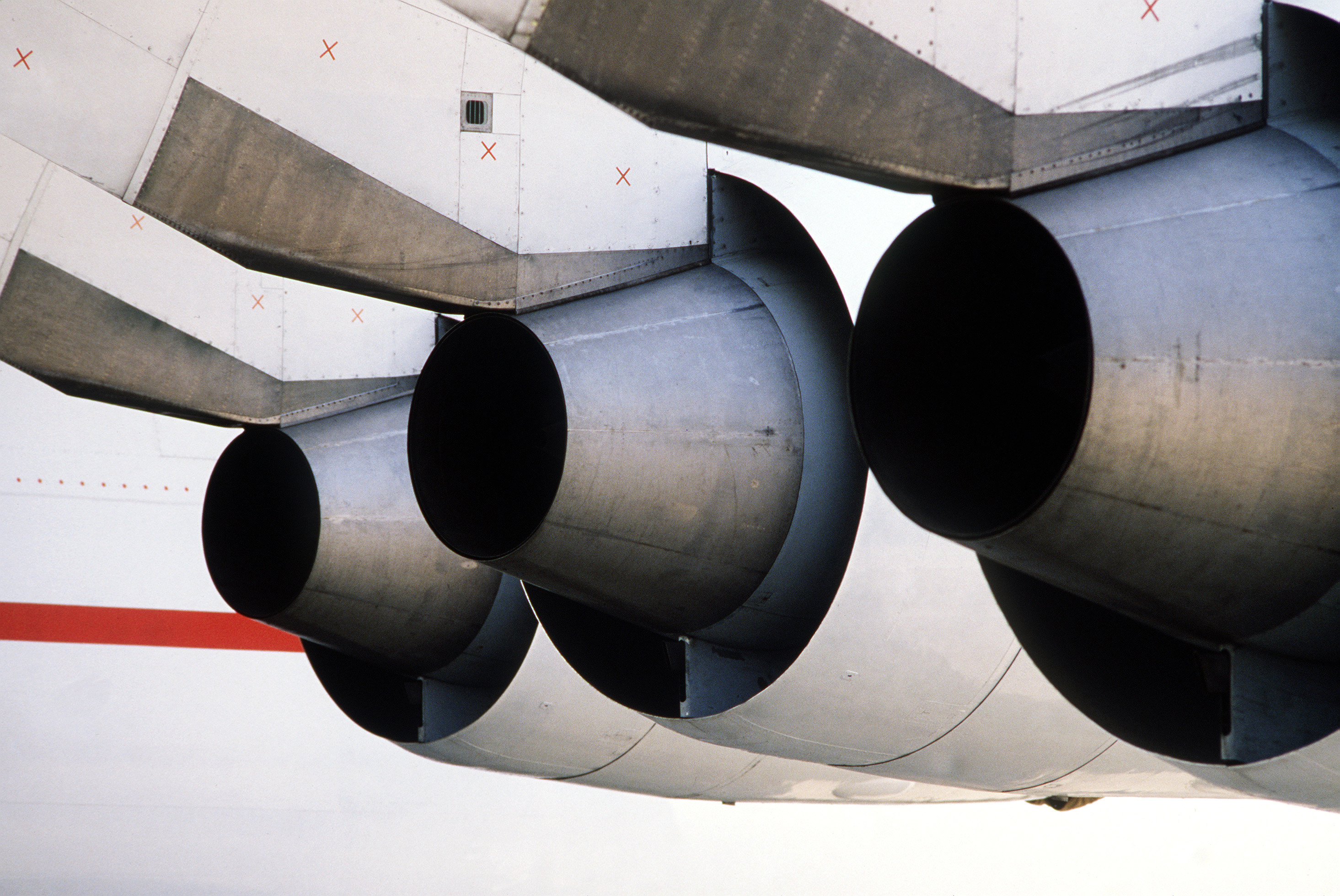 A close-up view of three engine exhaust nozzles on a Soviet An-225 Mechta aircraft exhibited at the 38th Paris International Air and Space Show at Le Bourget Airfield.